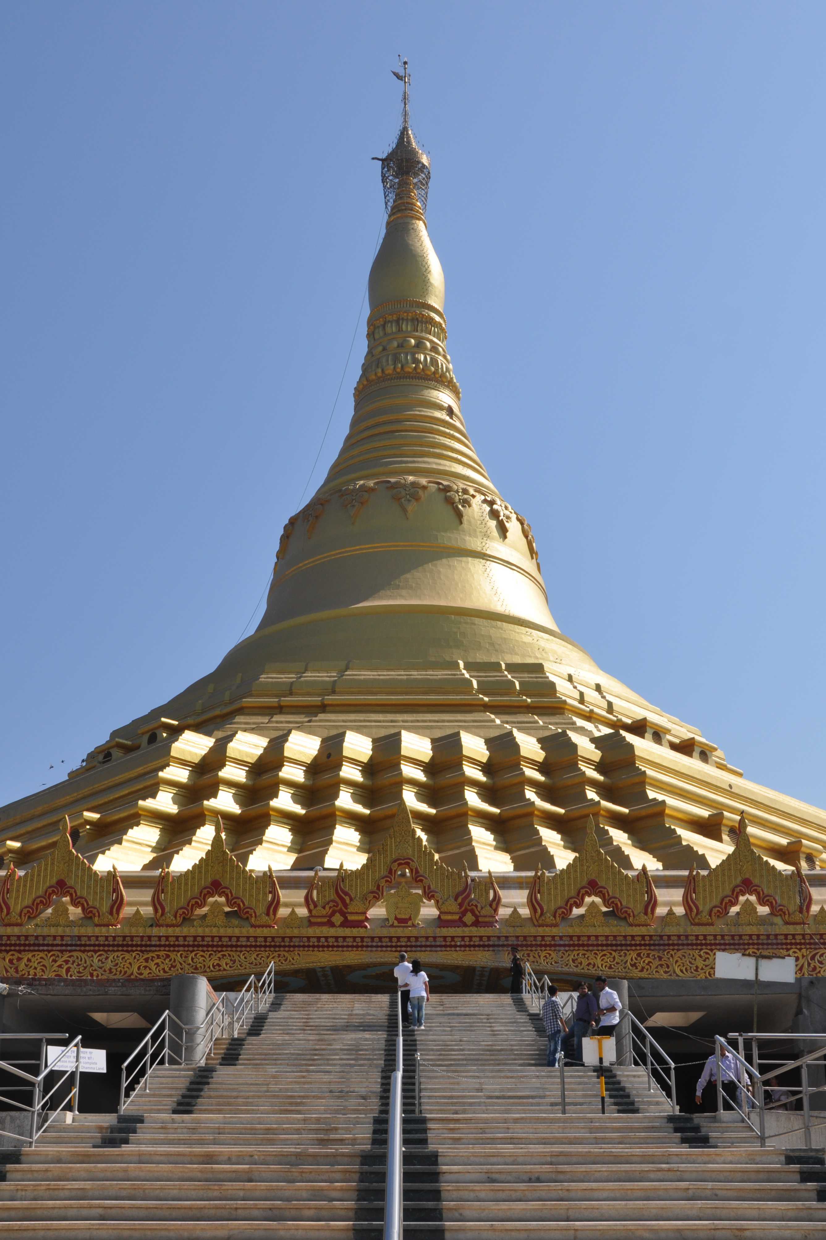 View of Global Vipassana Pagoda from the main entrance in Mumbai, India.